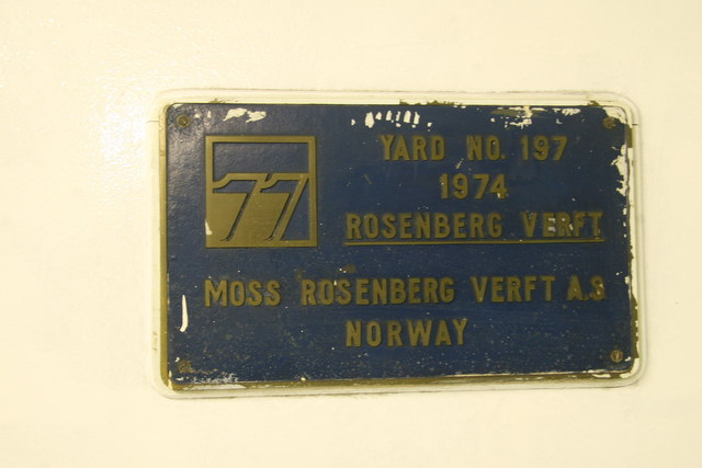 Opportunities to visit steam turbine powered ships are now few and far between and the recent scrapping of older passenger tonnage due to stricter SOLAS regulations has not helped. SS Margaret Hill was a liquefied natural gas carrier with the boilers fired on boil-off gas (BOG - yes really). The vessel was built in 1974 by Moss at Stavanger, Norway and fitted with a General Electric cross compound steam turbine of 30,400 horsepower and good for 19.5 knots. This was alongside a stairway in the engine room - not the most obvious place for a builder's plate. This vessel has now been sadly scrapped but there are still many steam powered LNG carriers plying their trade. The latest generation though are dual fuel gas/diesel powered, many with diesel electric drive.